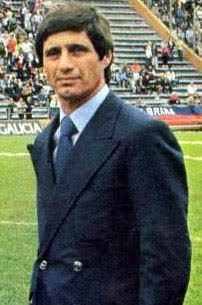 José Yudica during his tenure as manager of Newell's Old Boys.